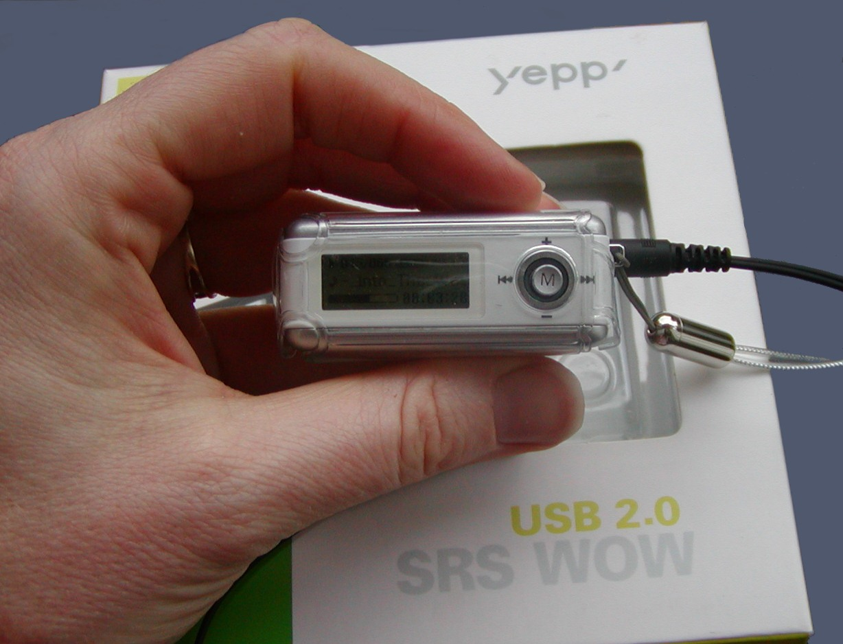 A hand holding a YP-T6 (Yepp) MP3 player from Samsung.